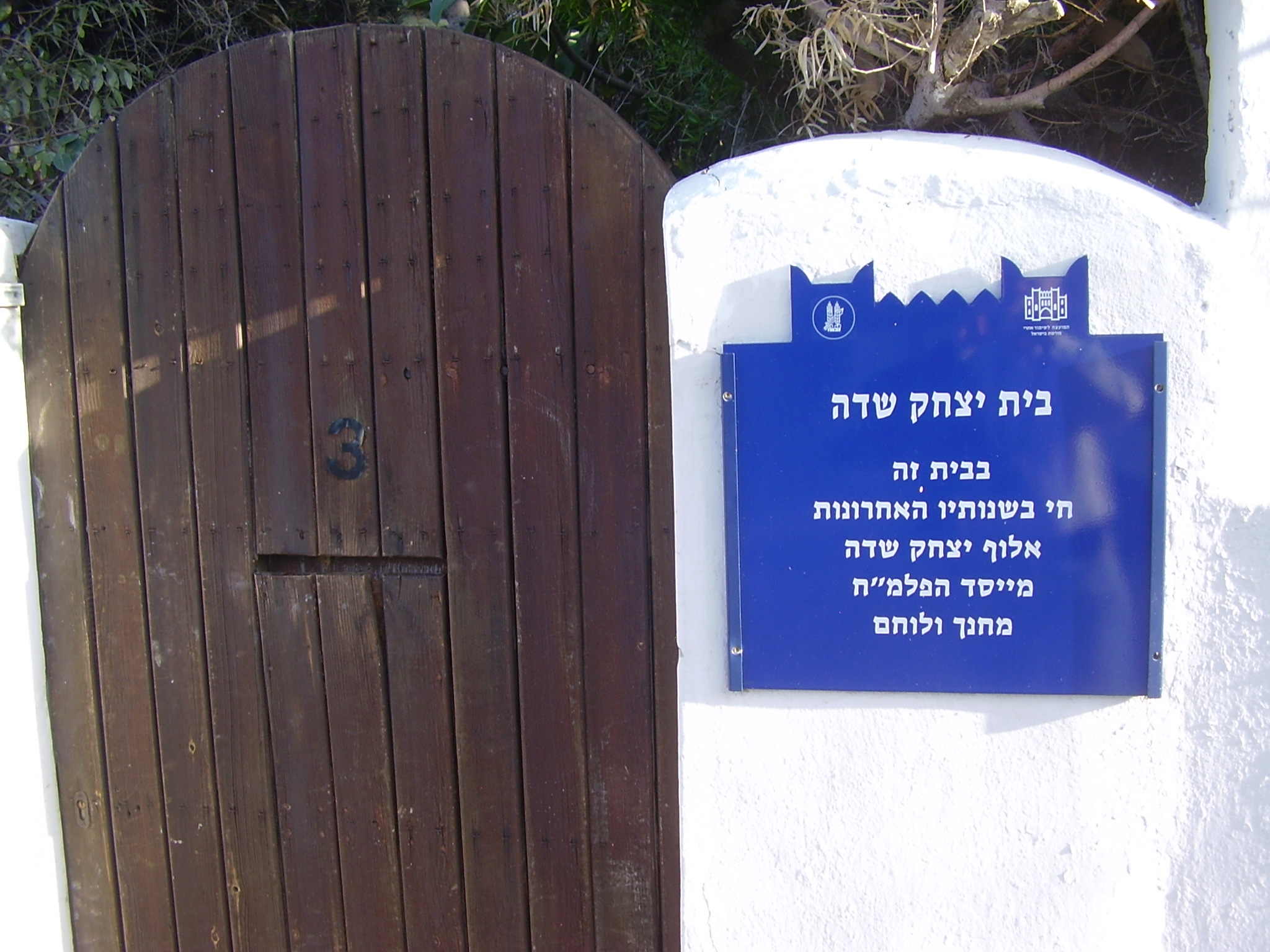 itzhak sade house in jaffa